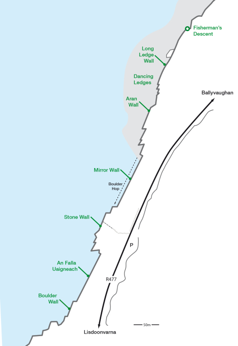 Recreation of a map of the layout of the Ailladie climbing area (also called Ballyreen Cliffs)